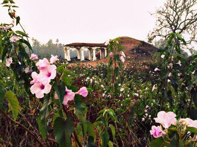 Ishwar Temple, near lake